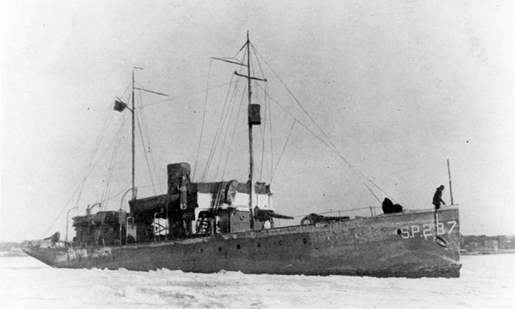 United States Navy patrol vessel USS SP-237, formerly named USS Ranger (SP-237), operating in icy waters near New York City